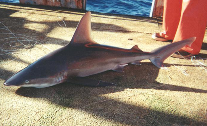 Sandbar shark (Carcharhinus plumbeus)